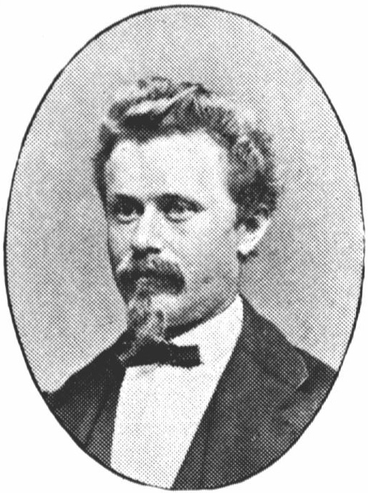 Hans Henric Hallbäck (1838-85), Swedish poet, journalist and senior lecturer at Lund university